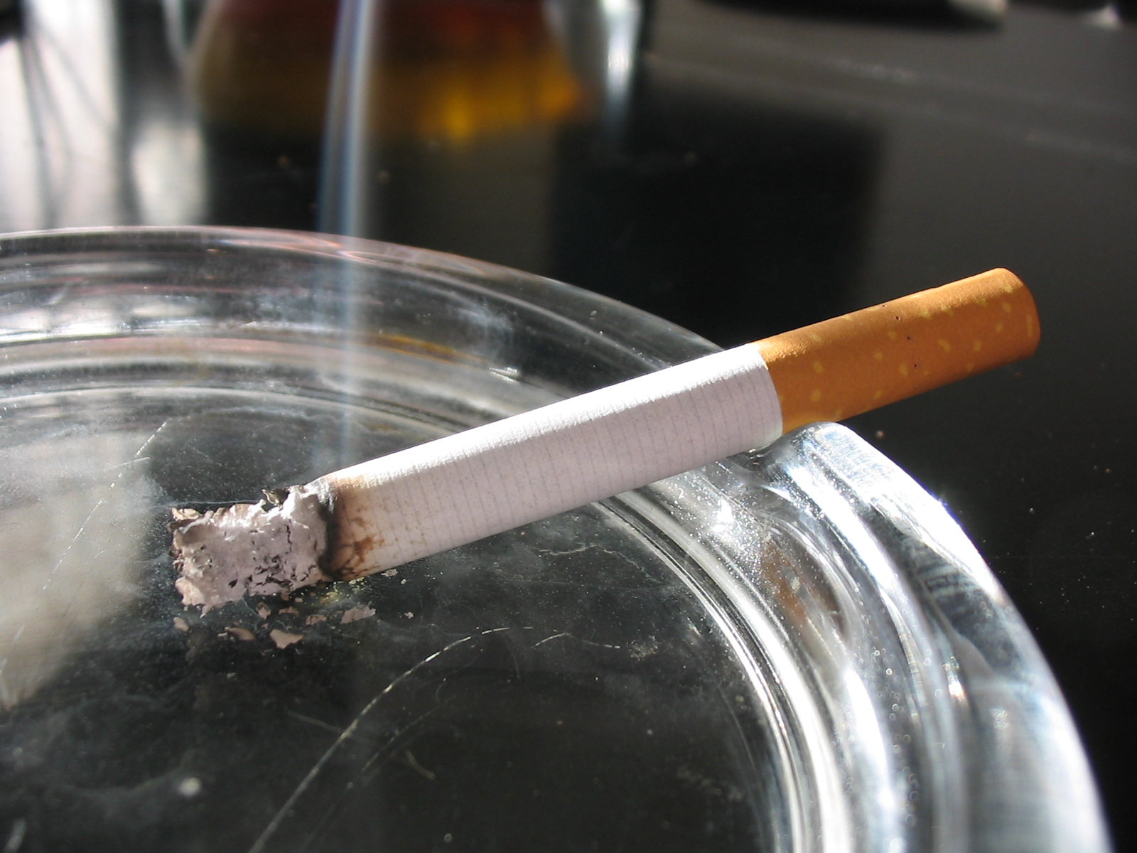 a lit cigarette in an ashtray